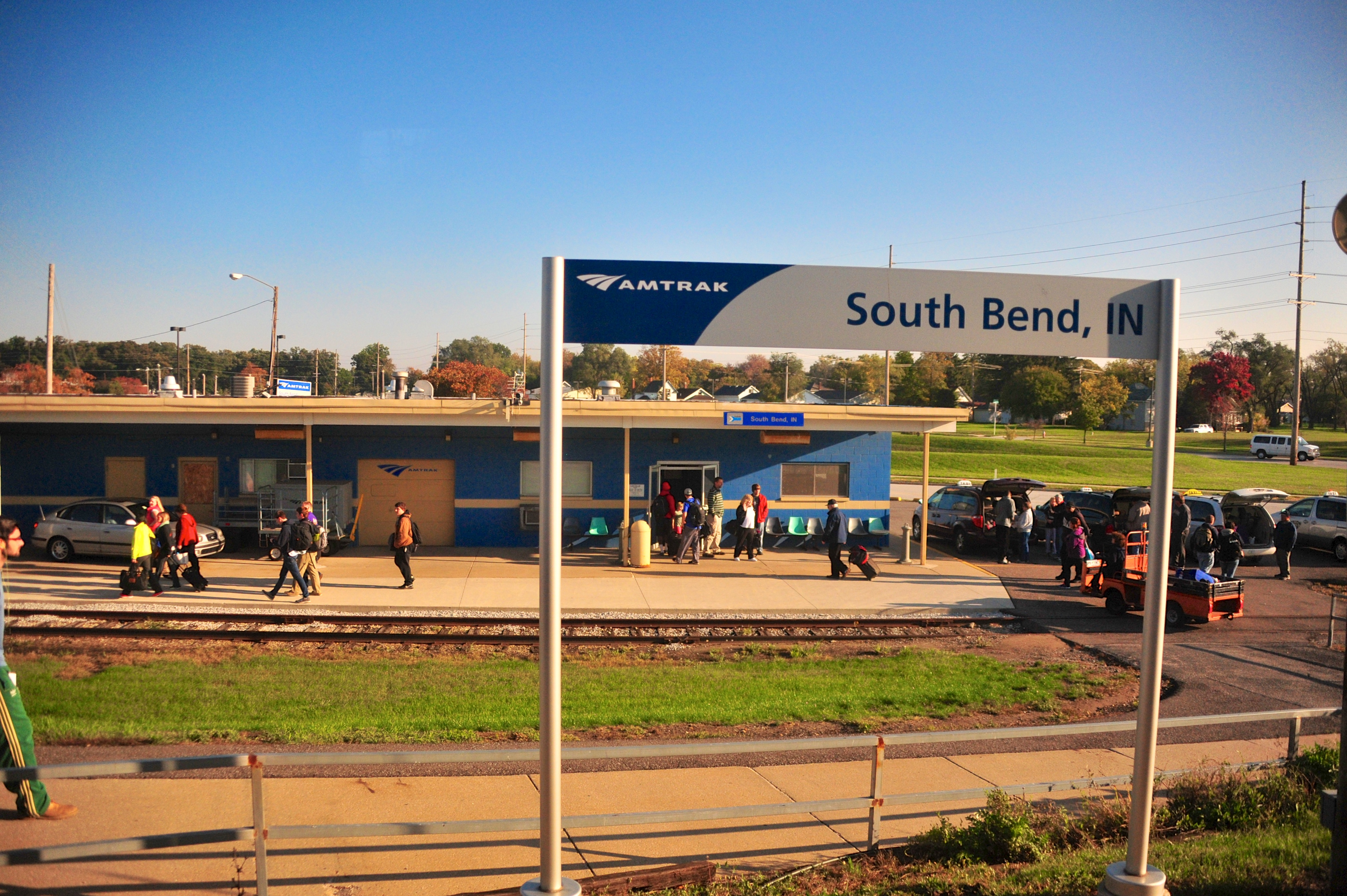 Lake Shore Limited 12